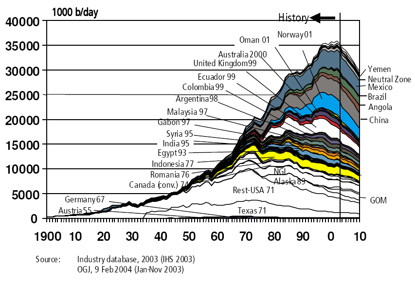 Hubbert peak graph showing the world's oil production peak.